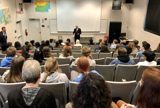 Great afternoon speaking to Oak Ridge High School students about the U.S. constitution and our system of checks and balances.